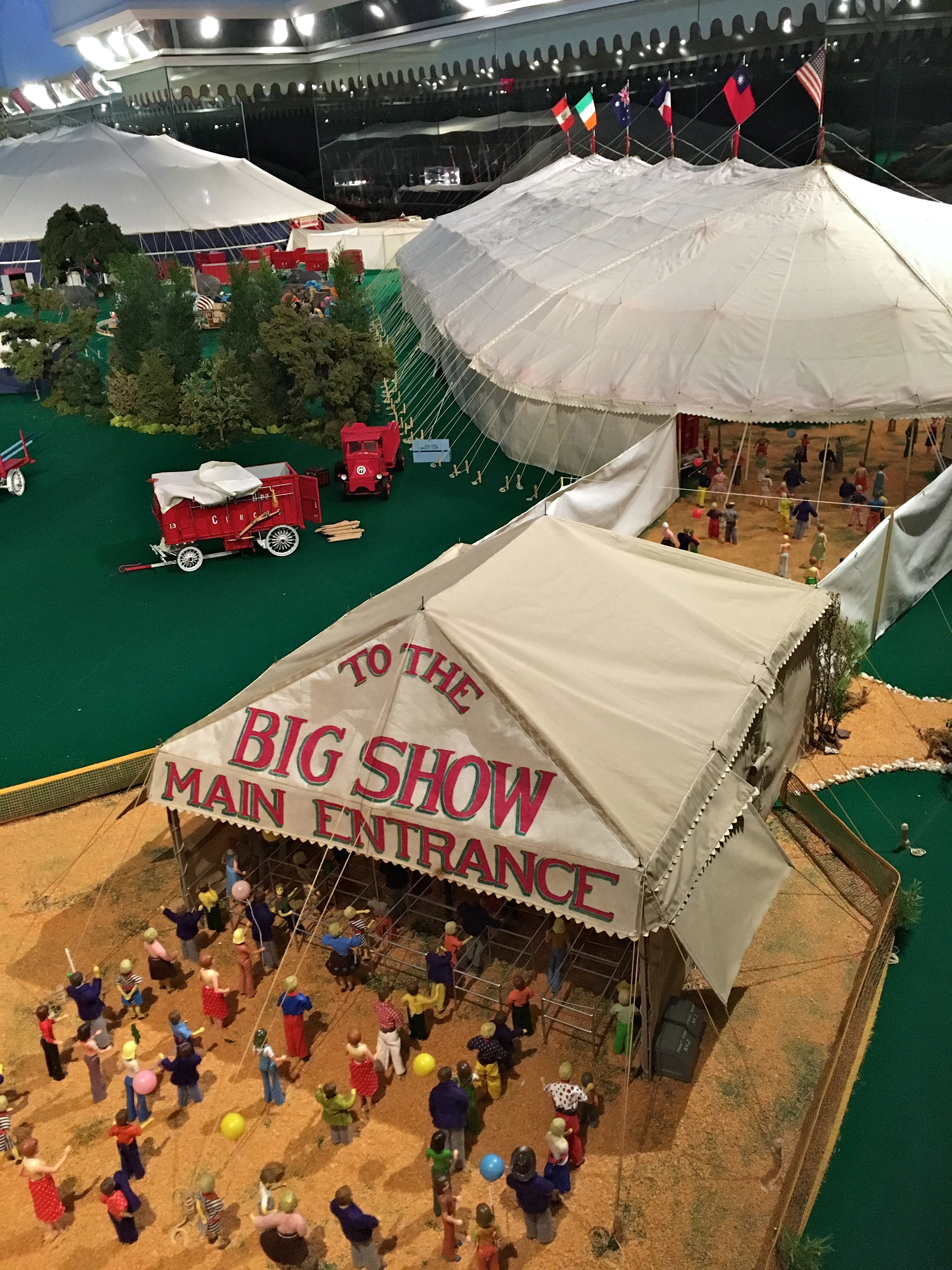 A scene in The Howard Bros. Circus, a 1:16 scale model of a circus in the 1920s, in the Tibbals Learning Center at The Ringling